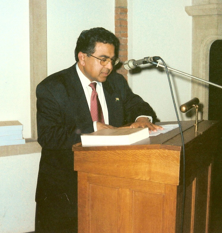 Surinamese ambassador Evert Azimullah; at the occasion of the publicationm of the Suriname-catalogue of the University Library of Amsterdam, handed over by authors Michiel van Kempen and Kees van Doorne to the ambassador of the Republic of Suriname, June 16th 1995, Amsterdam.